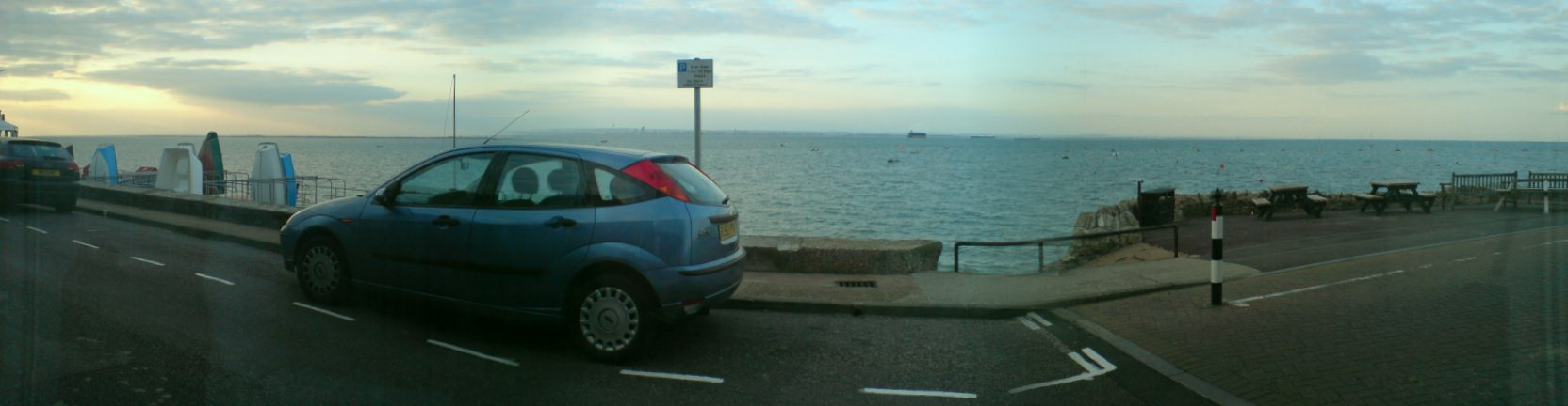 Panorama of Seaview, Isle of Wight